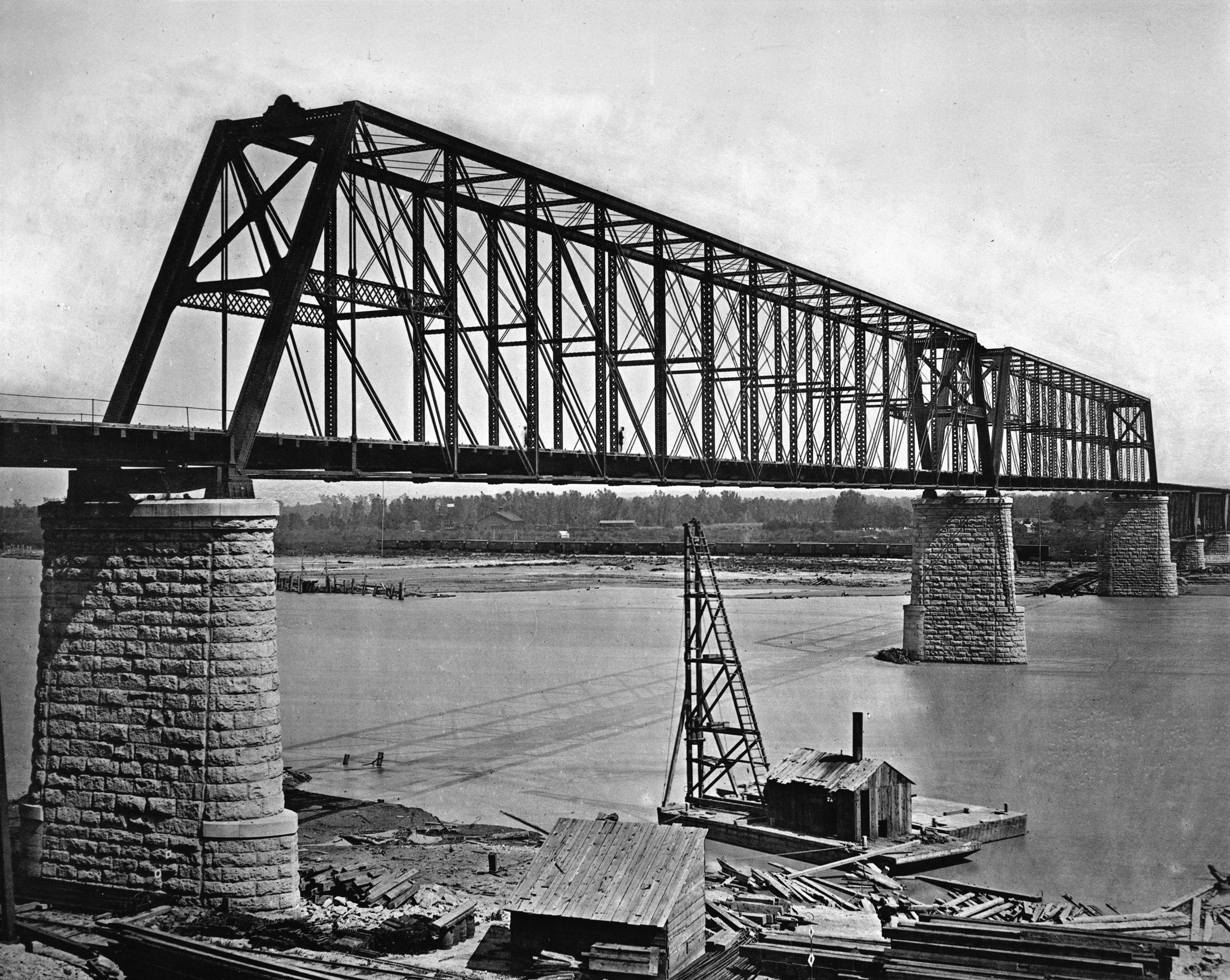 Photocopy from George S. Morison's The Plattsmouth Bridge, 1882. Photographer unknown, circa 1880. SOUTH WEB AND WEST PORTAL OF BRIDGE - Plattsmouth Bridge, Spanning Missouri River, Plattsmouth, Cass County, NE